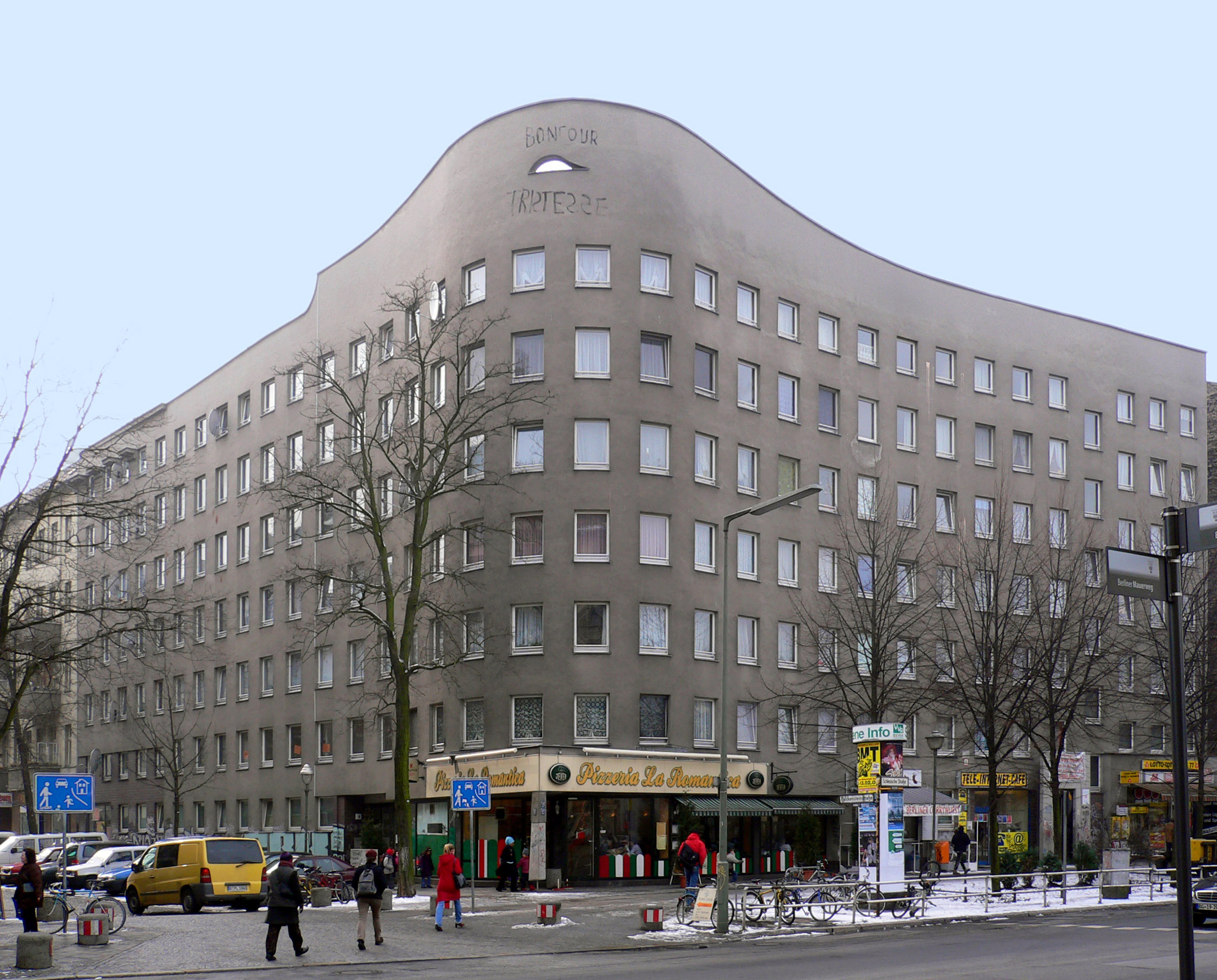 Berlin, Kreuzberg, Schlesische Straße 7, Falckensteinstraße 4 – building "Bonjour Tristesse", architect: Alvaro Siza, built between 1981 and 1984. The name was given to the building after completion of the building by an also unknown graffiti artist (date of graffiti unknown)